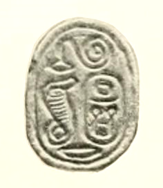 Glazed steatite scarab (type F2) bearing the cartouche of king Nikare II: - n k3 rˁ Possibly from the Nile Delta, Second intermediate period. London, British Museum EA 38569.